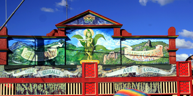 Image of Nimbin Mardigrass